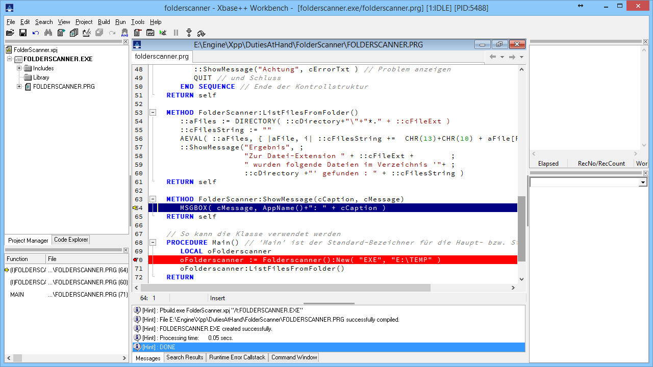 Xbase++ 2.0 IDE with sample project FolderScanner